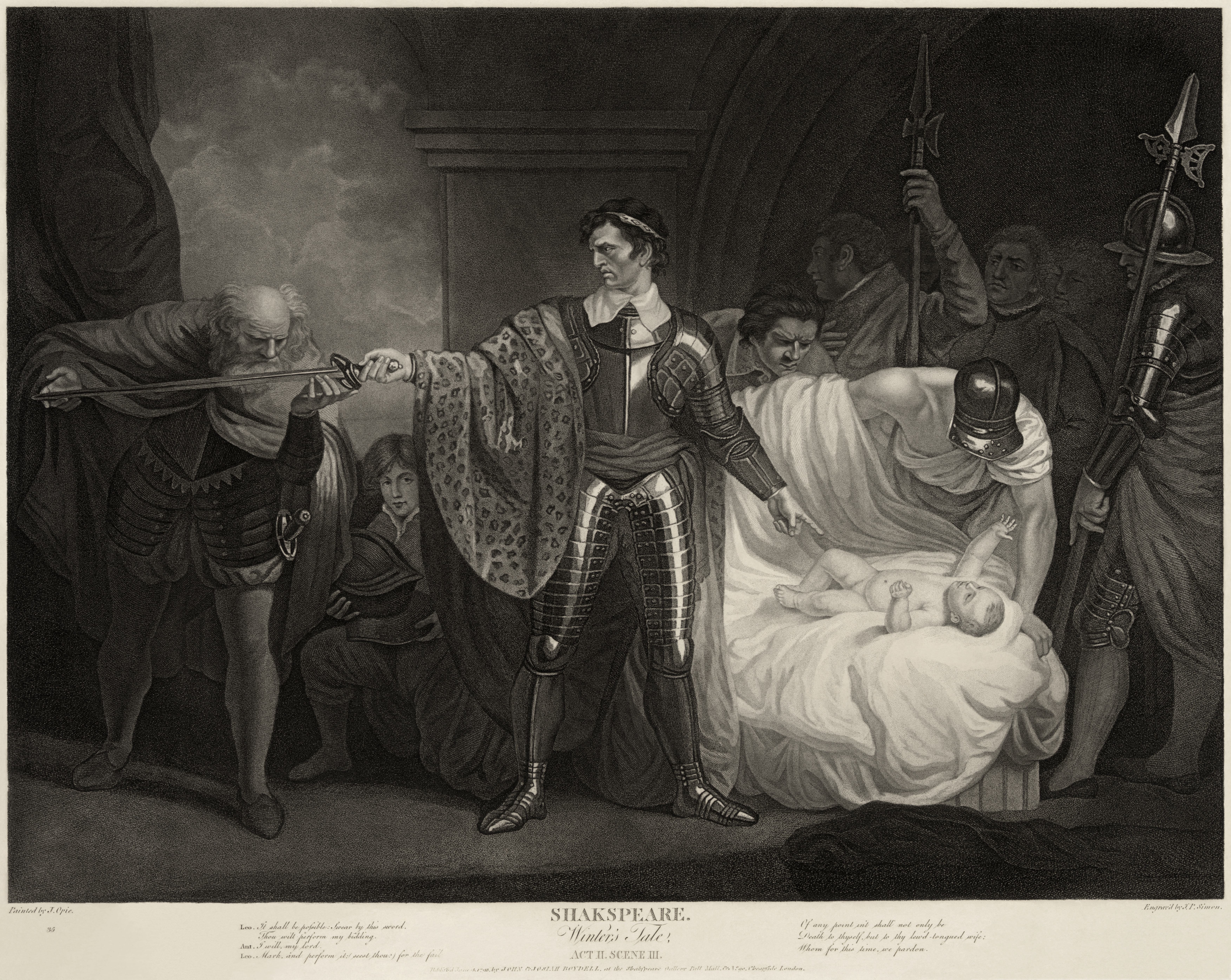 An illustration by John Opie, engraved by Jean Pierre Simon, for Act II, Scene III of Shakespeare's [The] Winter's Tale LEONTES: [To ANTIGONUS.] You, sir, come you hither: You that have been so tenderly officious With Lady Margery, your midwife, there, To save this bastard's life,—for 'tis a bastard, So sure as this beard's grey,—what will you adventure To save this brat's life? ANTIGONUS. Anything, my lord, That my ability may undergo, And nobleness impose: at least, thus much; I'll pawn the little blood which I have left To save the innocent:—anything possible. LEONTES. It shall be possible. Swear by this sword Thou wilt perform my bidding. ANTIGONUS. I will, my lord. LEONTES. Mark, and perform it; (seest thou?) for the fail Of any point in't shall not only be Death to thyself, but to thy lewd-tongu'd wife; Whom for this time, we pardon.